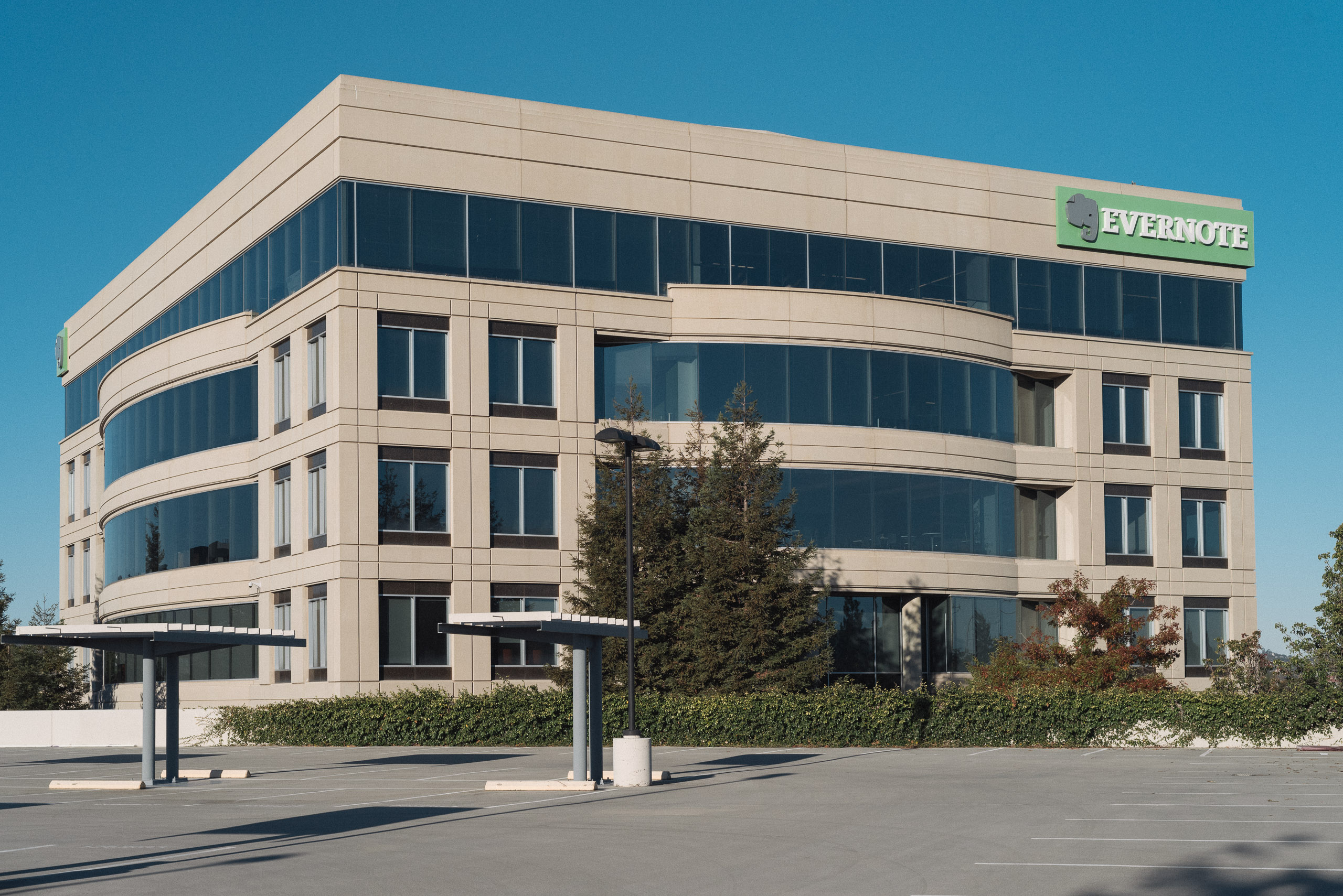 Evernote headquarter at 305 Walnut Street, 94065 Redwood City, CA, United States of America (US/USA)